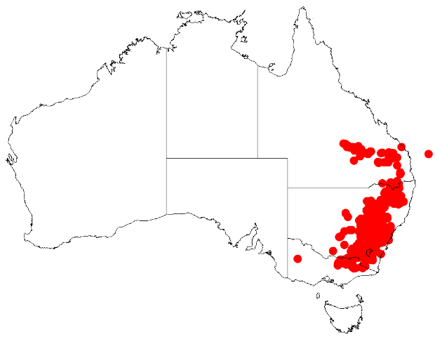 Acacia buxifolia Occurrence data from Australasian Virtual Herbarium downloaded from on 8 December 2018